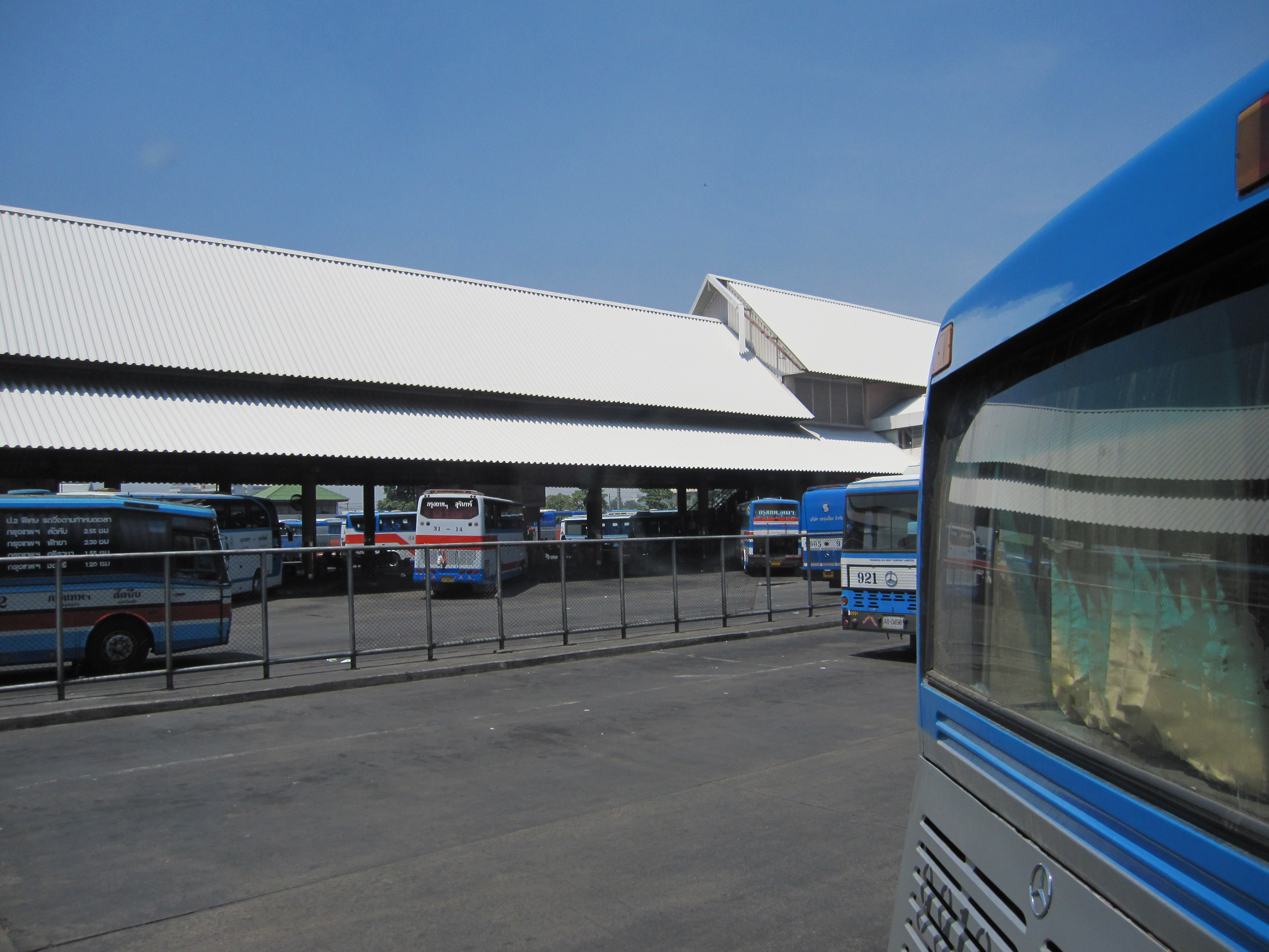 North Bus Station Bangkok